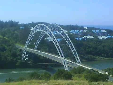 Mtamvuna bridge crossing the Mtamvuna River mouth in KwaZulu-Natal, South Africa